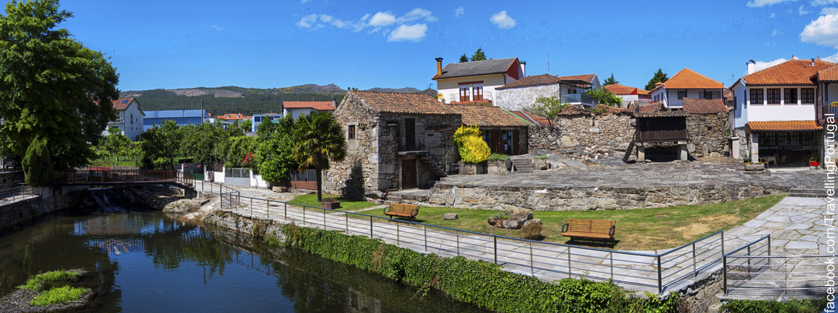 boticas, tras os montes, terras de barroso, portugal, norte